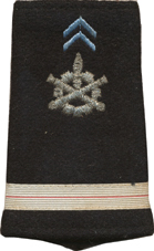 Shoulder sleeve (material Regiment, France).